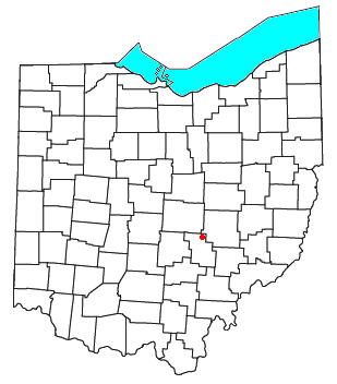 Locator map of the unincorporated community of Mount Perry in Perry County, Ohio, United States.